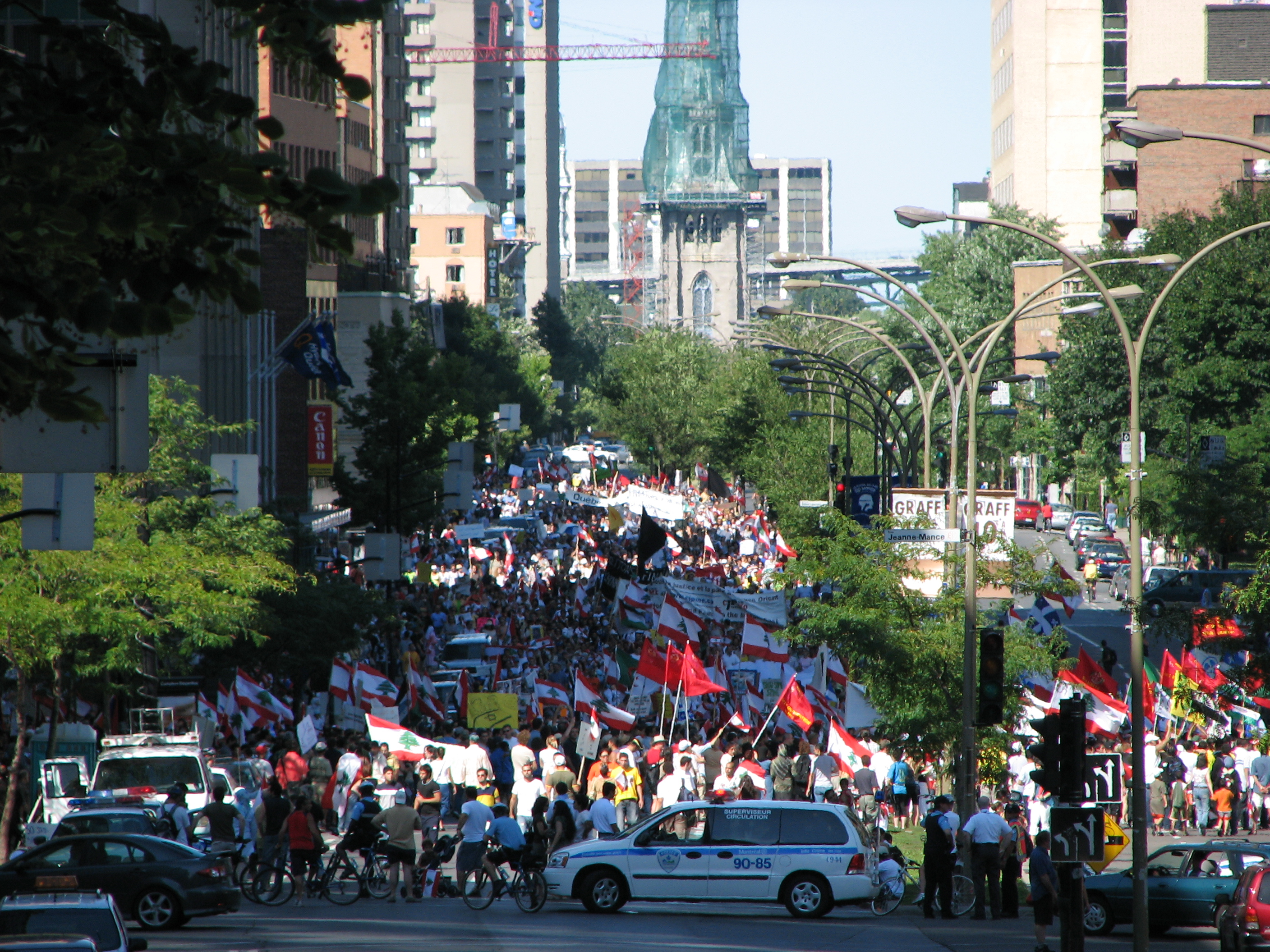 More than 15,000 people took part in a demonstration in the streets of Montreal on August 6, 2006, to demand a cease-fire in the 2006 Israel-Lebanon conflict. Corner of Boulevard René-Lévesque and rue St-Alexandre facing east (12x zoom).